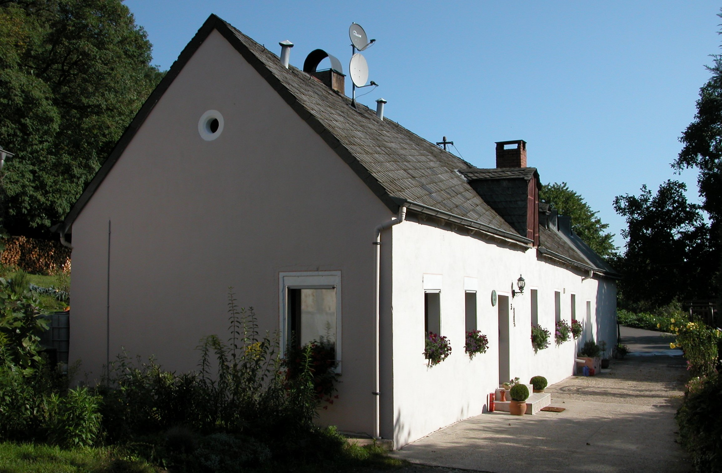 Former chapel and leprosy hospital st. jost - Trier Germany